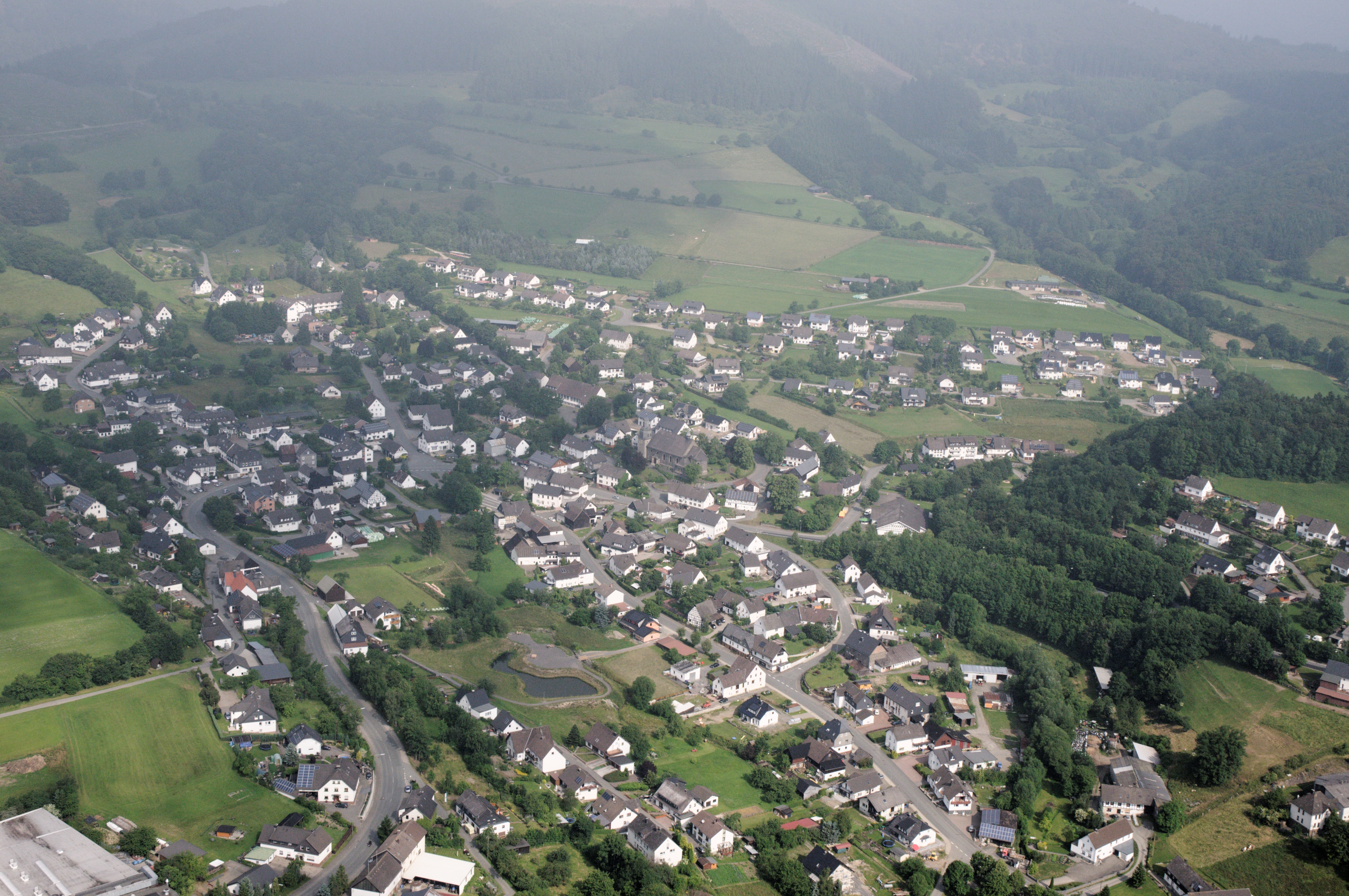 Fotoflug Sauerland-Ost: Hesborn von Osten The making of this document was supported by the Community-Budget of Wikimedia Germany.